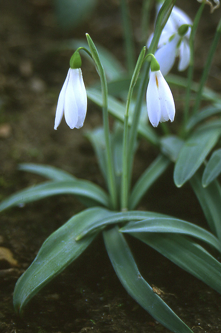 This is a scan from a 35mm transparency which I took in c. 2000 at a private garden in Essex, England. It shows a "poculiform" snowdrop of the species Galanthus plicatus, in which poculiform plants are extremely rare. It is an unusual flower formation, in which all six segments – the inner and outer "petals" – are the same length (and white, instead of being marked with green or yellow). A normal flower can be seen in the background. This scan is in the Public Domain (however, I retain ownership and copyright of the original transparency and any higher-resolution scans derived from it). If this image is used outside Wikipedia a photographer's credit (Simon Garbutt) would be much appreciated! SiGarb 18:40, 11 December 2005 (UTC)